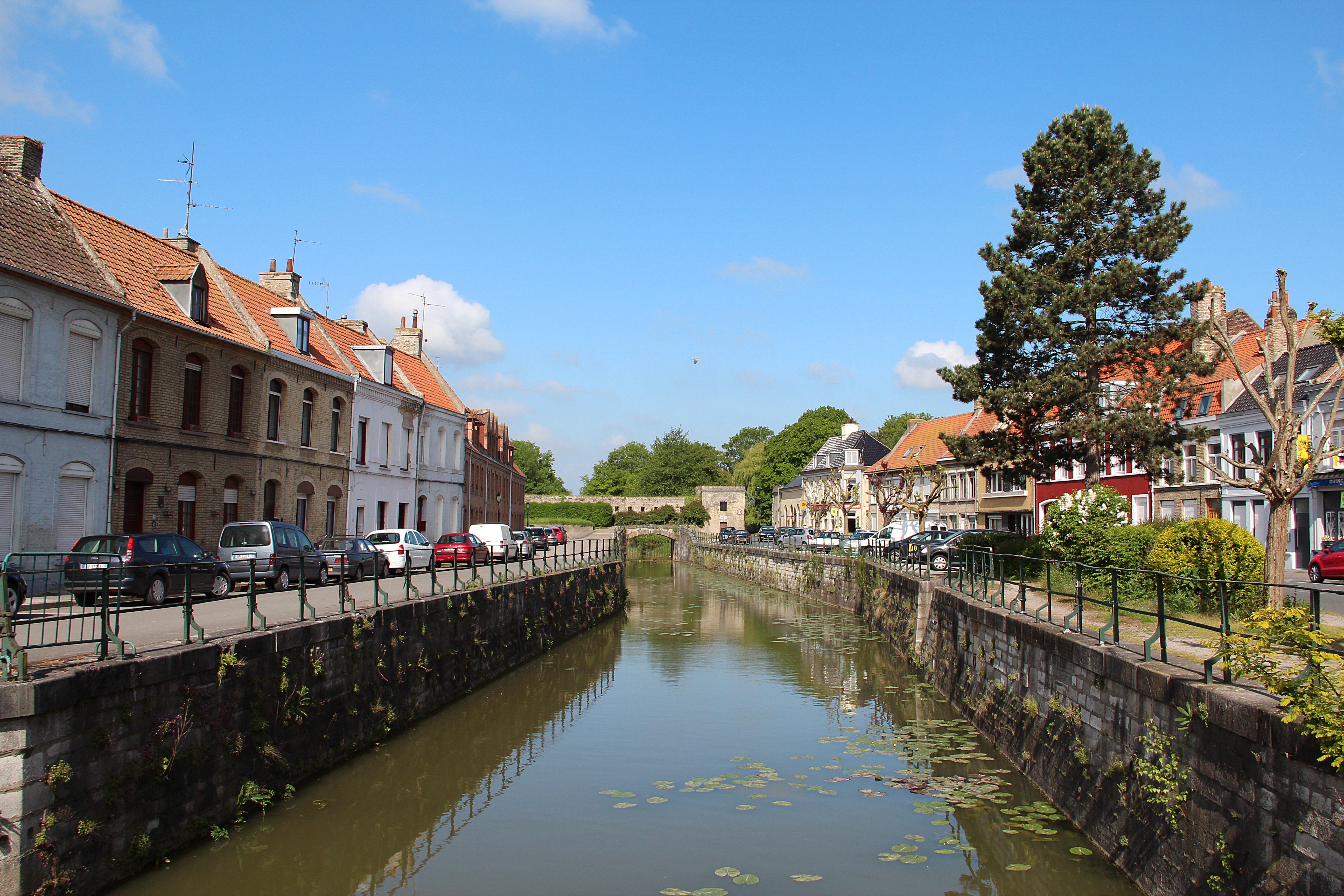 Rue du Port and Quai de la Manutention along the Basse-Colme Canal in : Bergues (Nord department, France).